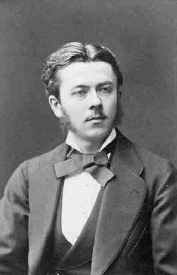 Selfportrait by Lucien Bégule